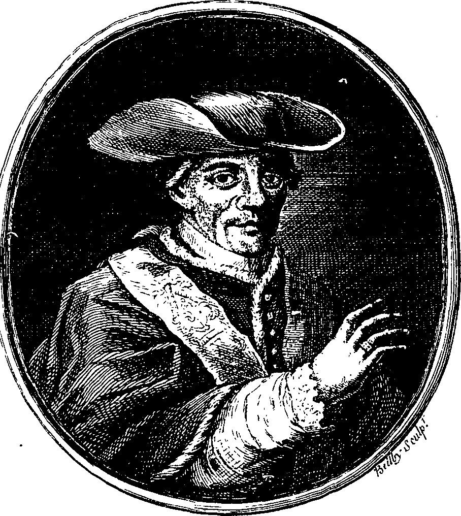 Fleuron from book: The life of Pope Clement XIV. (Ganganelli.) The second edition, revised, corrected, and enlarged. Carefully compared with the third edition published at Paris, by the Marquis Caraccioli.